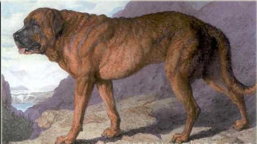 A painting of an Alpine Mastiff brought to Britain in 1815, later the source of a drawing by Edwin Landseer, engraved by Thomas Landseer.